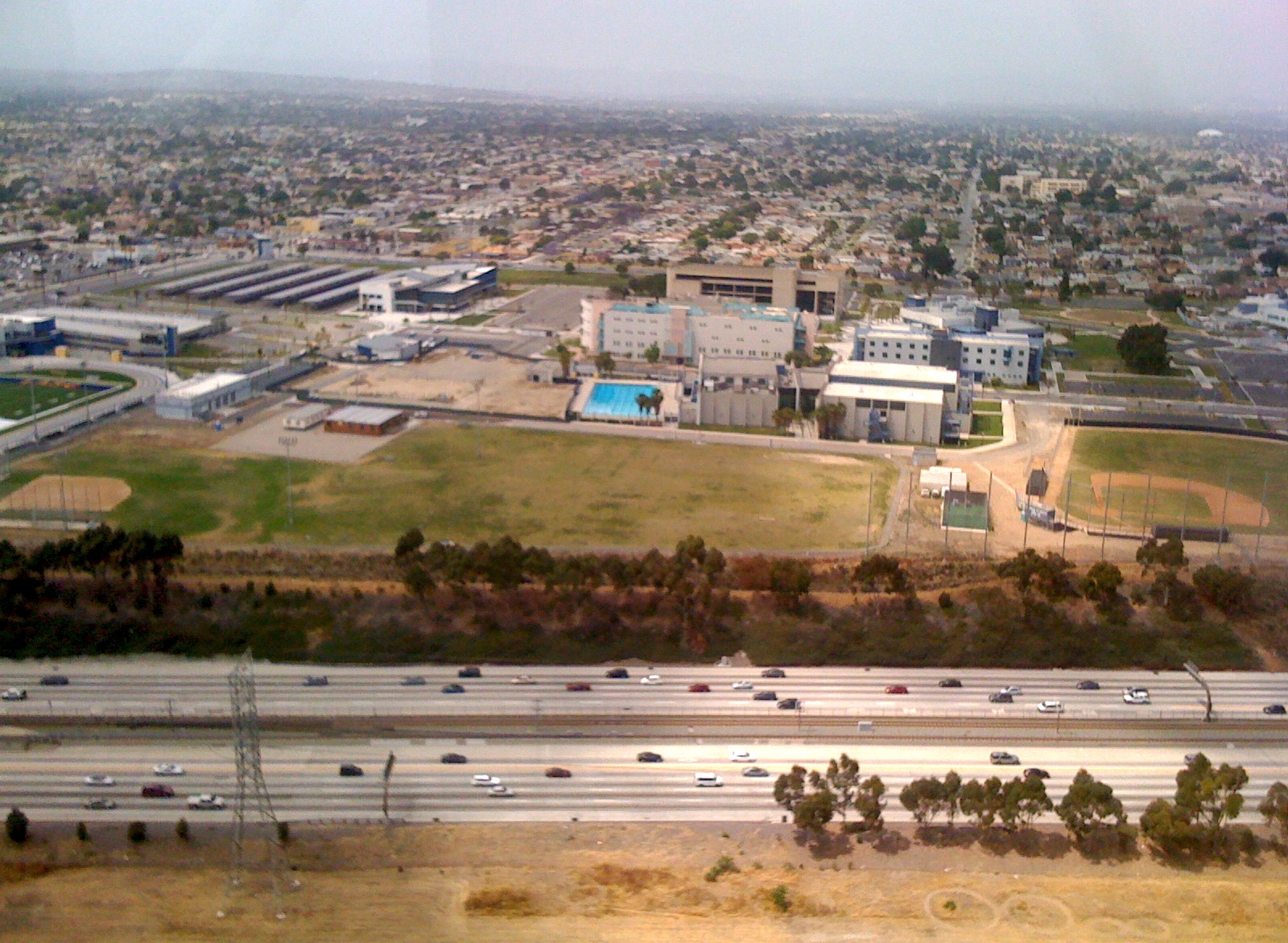 Los Angeles Southwest College (view from south at 700 ft) Taken with Apple iPhone 3G 12 June 2010 2:32pm